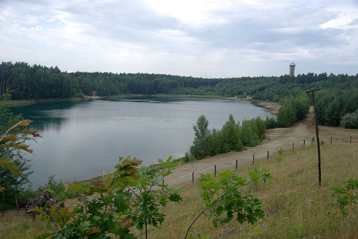 Lake Felixsee in Bohsdorf, Brandenburg, Germany